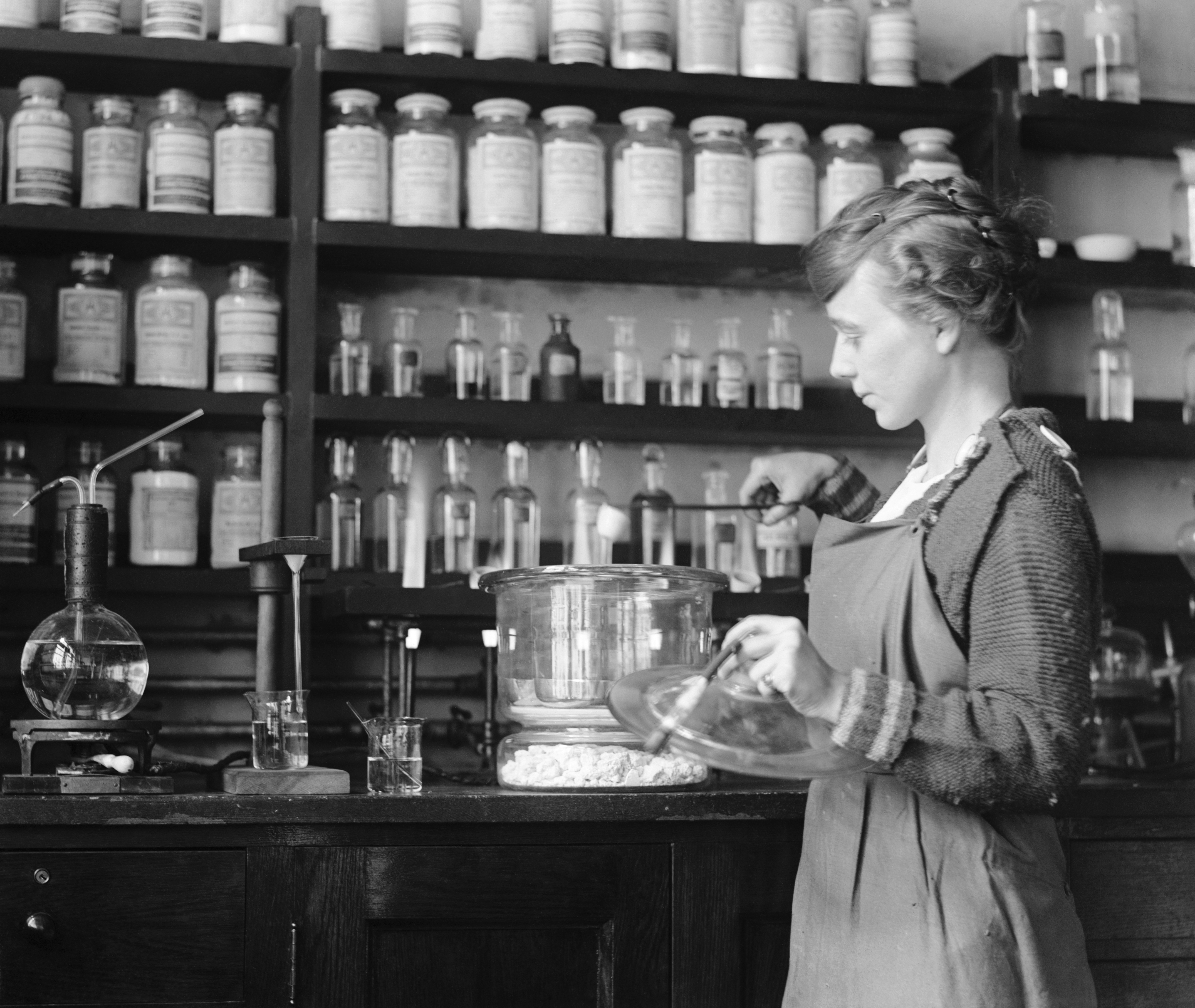 Margaret D. Foster, seen in her lab. The original caption by the National Photo Company is "Miss Margaret D. Foster, Uncle Sam's only woman chemist, Oct. 4/19" - that's possibly a bit misleading, though she definitely was the first female chemist in the United States Geological Survey team.